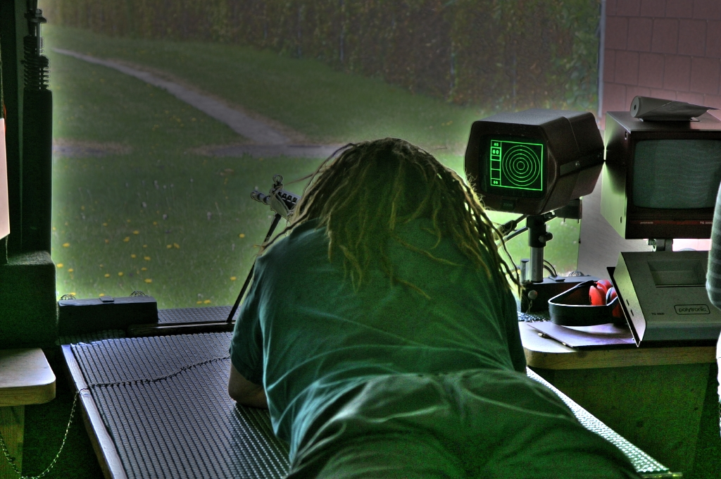 Firing range in Switzerland